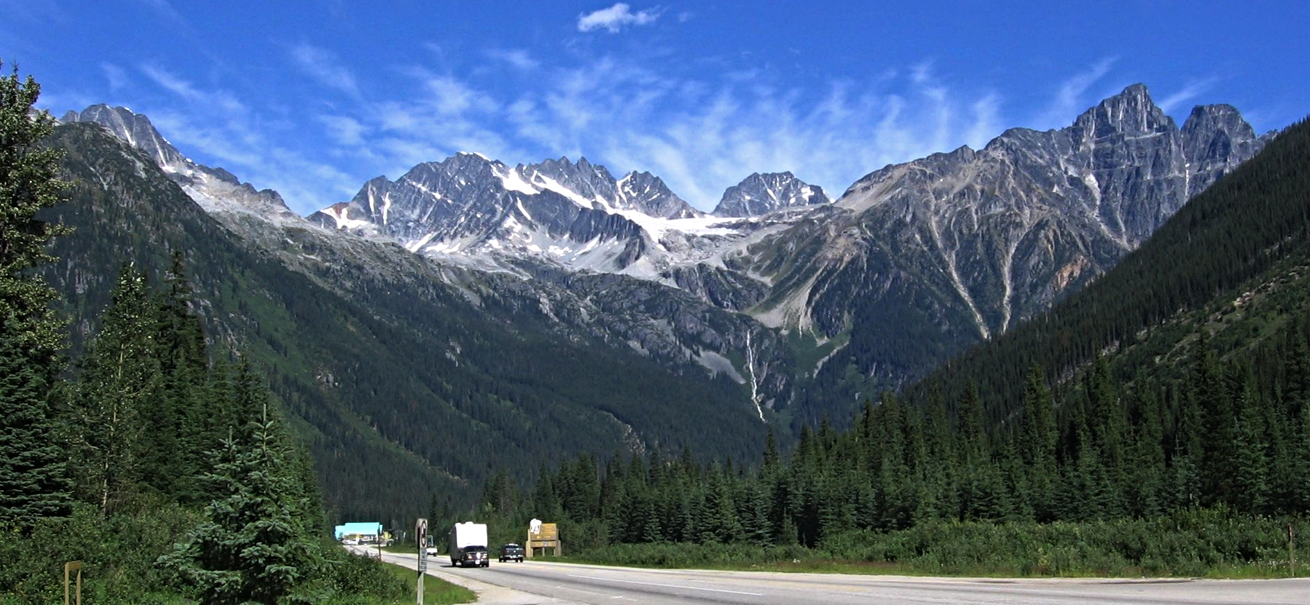 View from Rogers Pass, left to rightː Mount Sifton, Mount Rogers, Hermit Mountain, Mount Tupper.